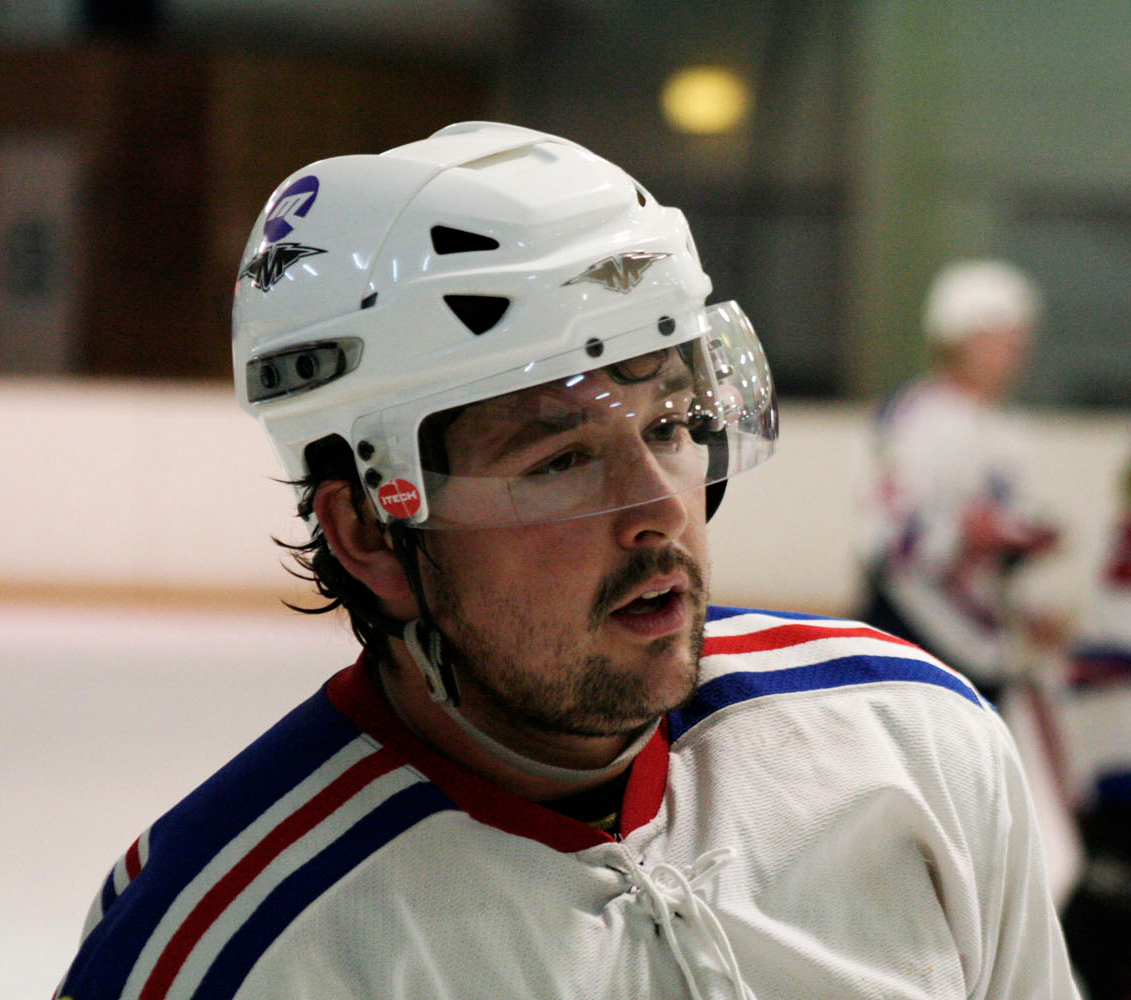 Vincent Hughes playing for the Melbourne Ice during the 2007 AIHL season.